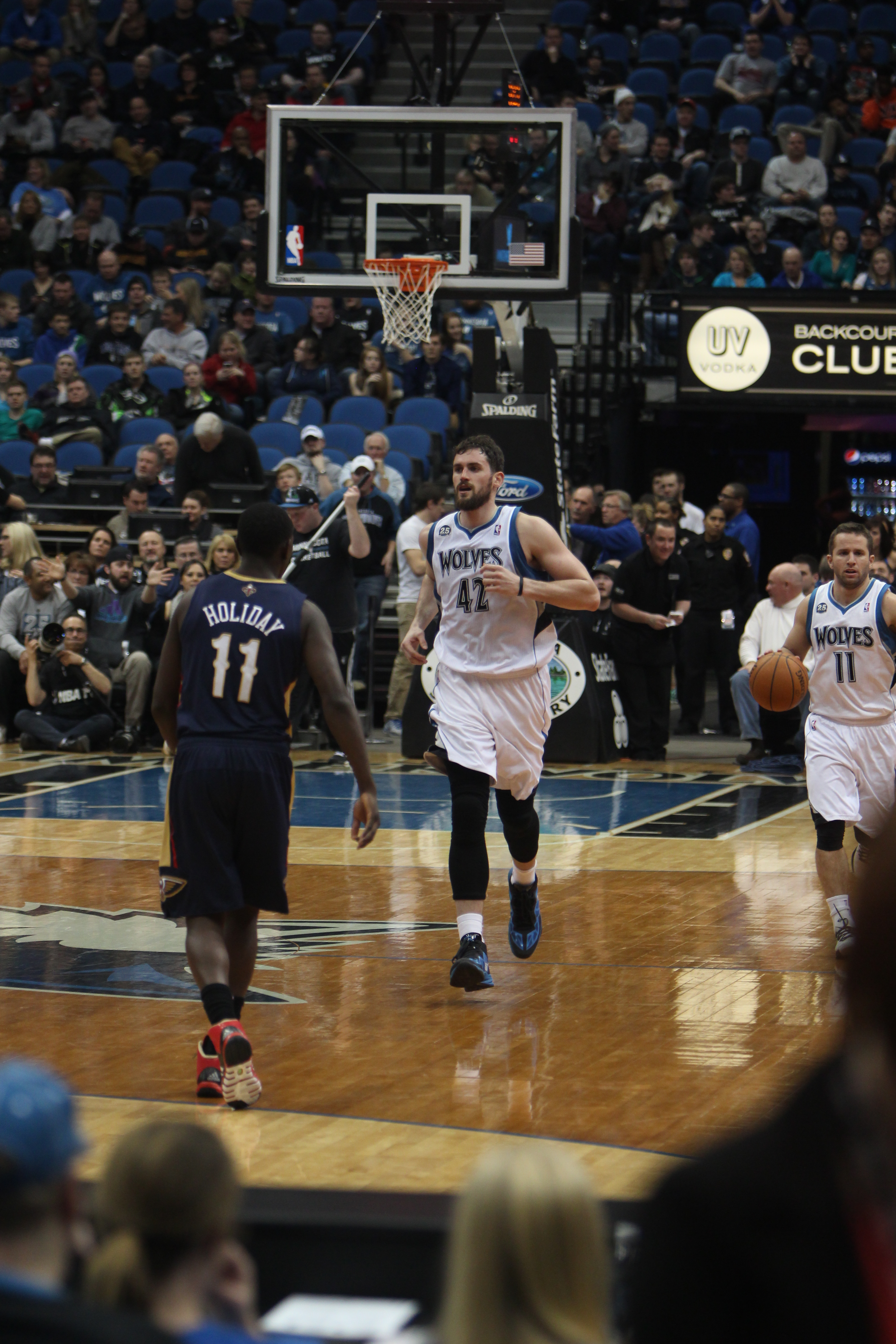 Kevin Love